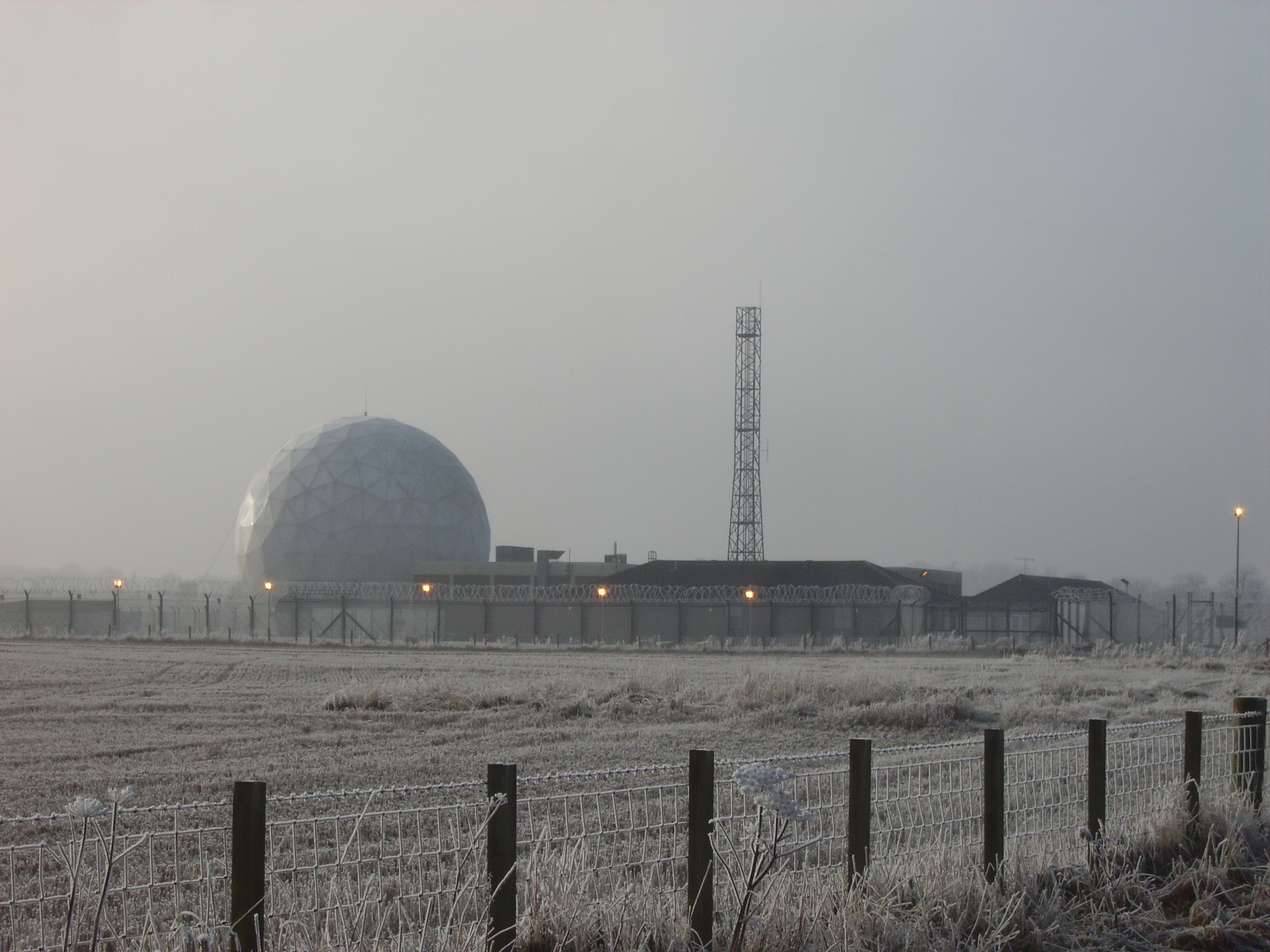 Picture taken by me (Veedar) of Balado satellite ground station on 31st January 2006. Summary Picture taken by me (Veedar) of Balado satellite ground station on 31st January 2006.